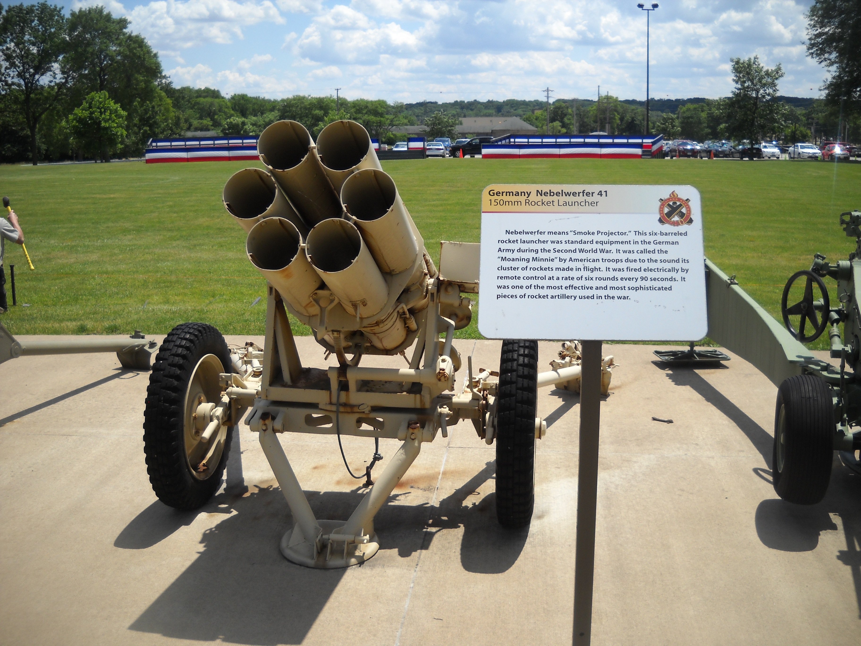 A view of the German Nebelwerfer 41 multiple rocket launcher from the front, on display at the Rock Island Arsenal museum, Rock Island Arsenal, Illinois